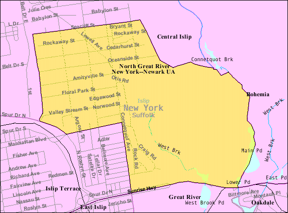 U.S. Census 2000 reference map for North Great River